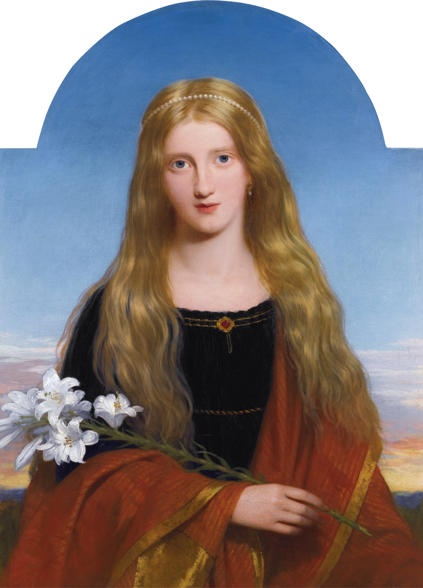 The Lily - portrait of miss Bury, daughter of Lady Charlotte Bury and her second husband, the Rev. John Bury, rector of Litchfield in Hampshire oil on canvas 85.5 x 63.5 cm 19th century